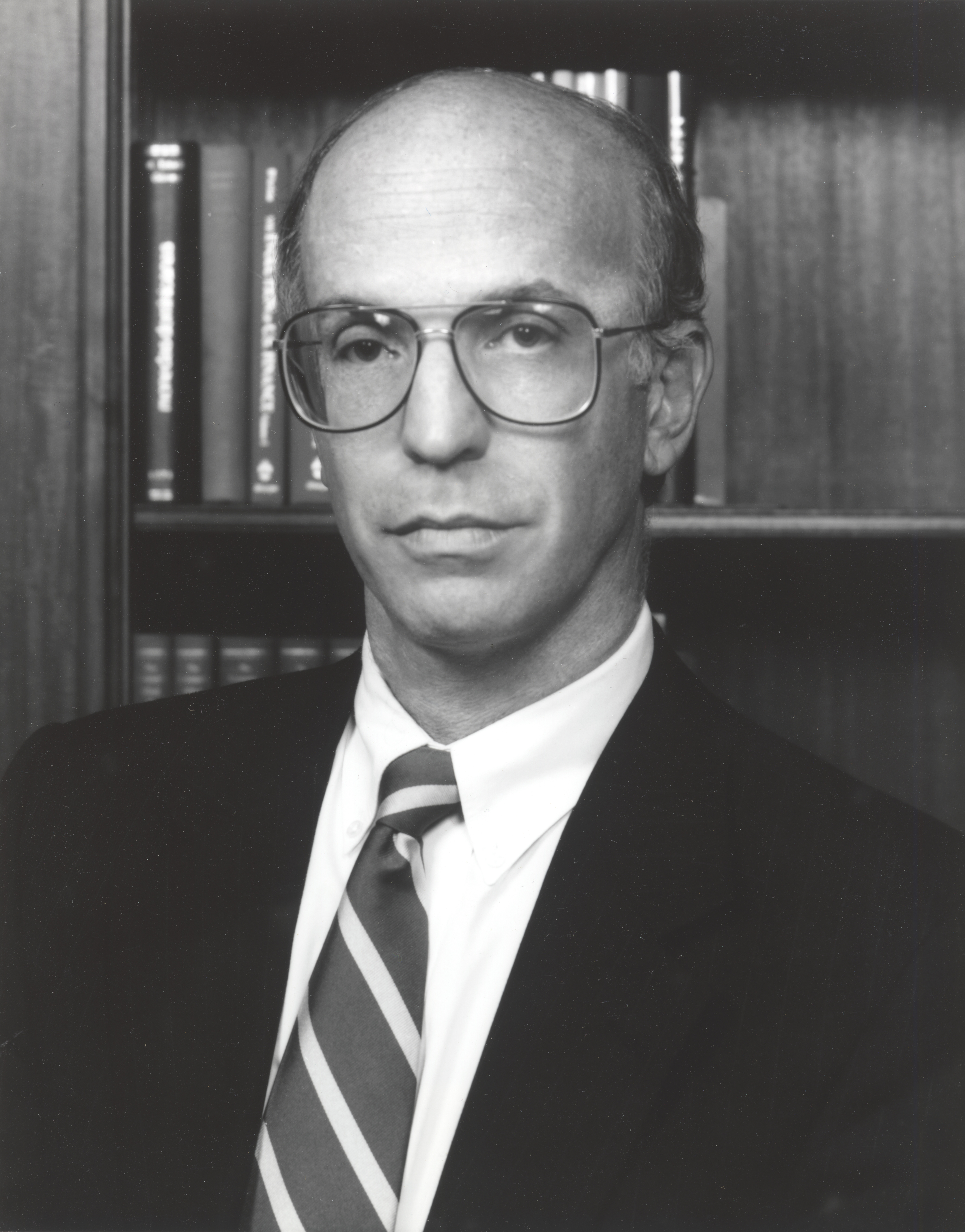 Vice Chairman Alan S. Blinder (served June 27, 1994 – January 31, 1996) Photo credit: Brooks/ Glogau Studio